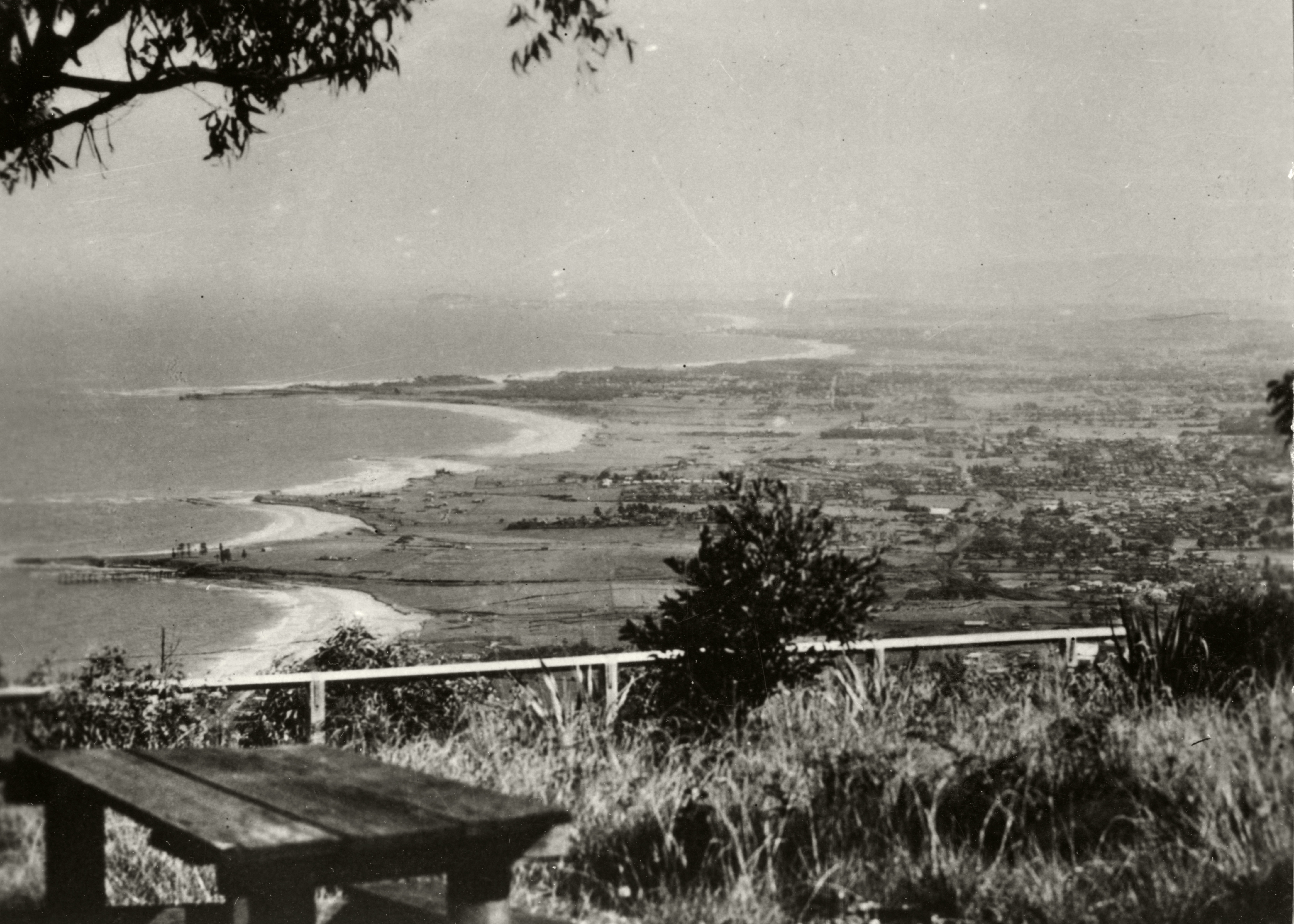 Foreground, Sandon Point, next is Bulli, then Woonona (Collin's Point), then the large point is Bellambi. The Royal Australian Historical Society is heading to Wollongong to stage its annual conference on Saturday 22nd and Sunday 23rd October at Centro CBD – 28 Stewart St. Wollongong NSW. The digital revolution is impacting how we research and produce history. There is also an increasing appetite for local and community history that connects people to their identity and place. History plays a critical role in advocacy campaigns to ensure that these places remain part of our cultural landscape in this era of widespread urban development. How historical societies engage with these developments is critical to ensure their continued relevancy in 21st century Australia. The RAHS invites you to join us to explore these topics, learn skills that will support your history projects and enjoy opportunities to network and share histories with RAHS members and friends. Attend an historical tour and our conference dinner on the Saturday evening. Conference details are on our website, which includes the full program and booking form: Go straight to the program and booking form here